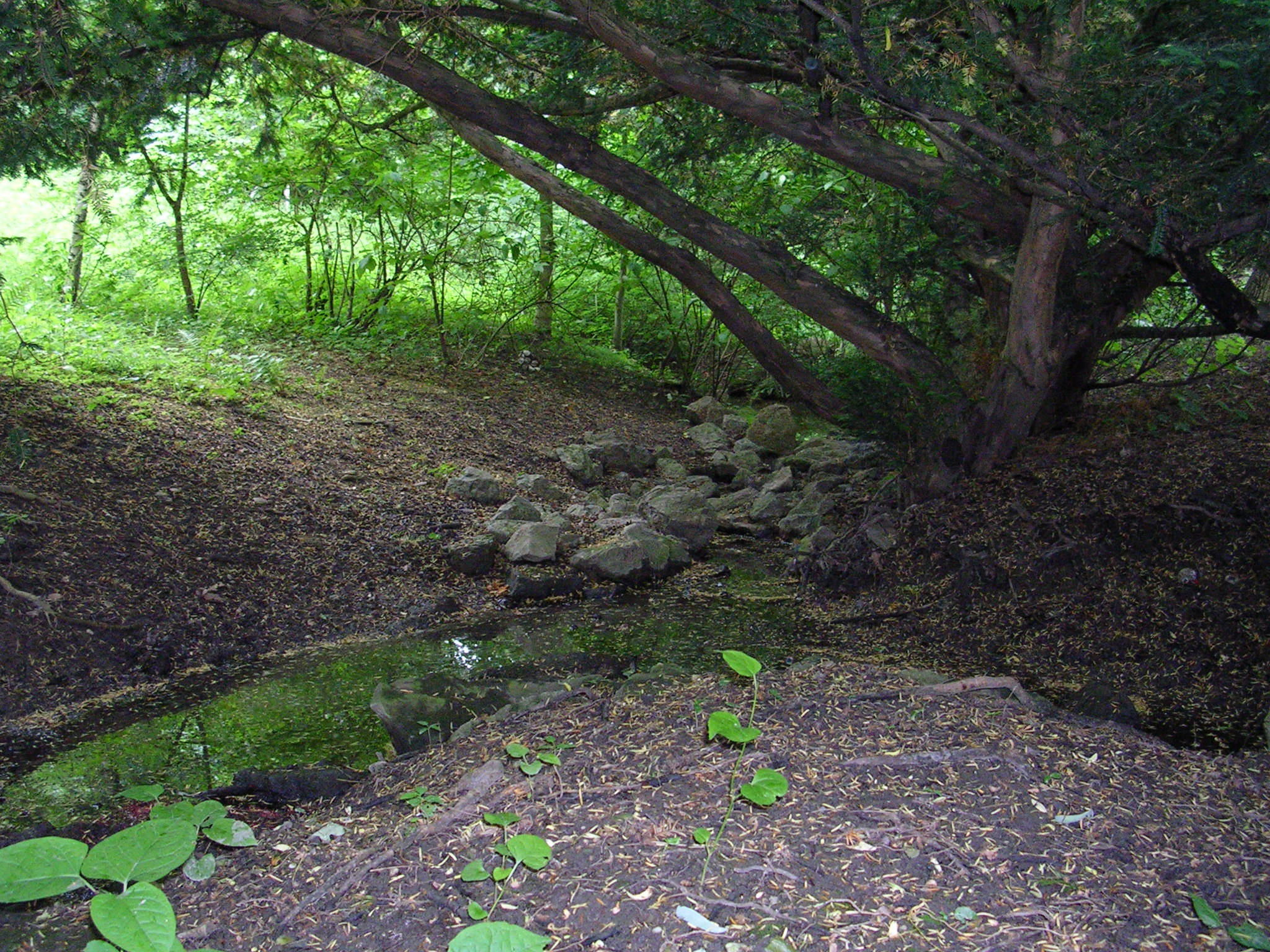 Former headwater of the Krottenbach in the Wertheimsteinpark (Oberdöbling)